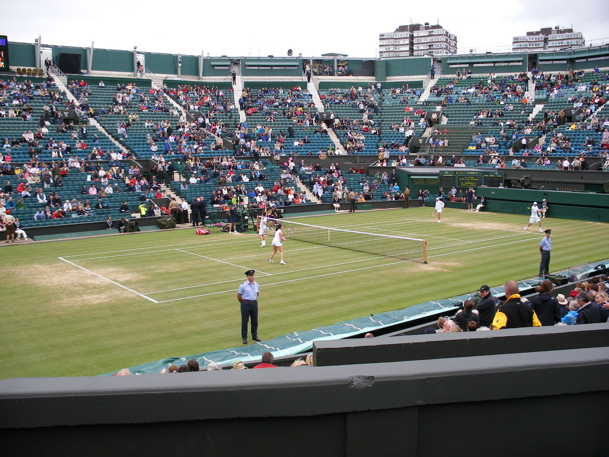 Mixed doubles pairs Lisa Raymond & Mike Bryan (right), and Melanie South & Alex Bogdanovic (left) knocking up on Wimbledon's Centre Court, with the open roof of 2007. British pair South & Bogdanovic went on to win the match, knocking out the no.1 seeds.